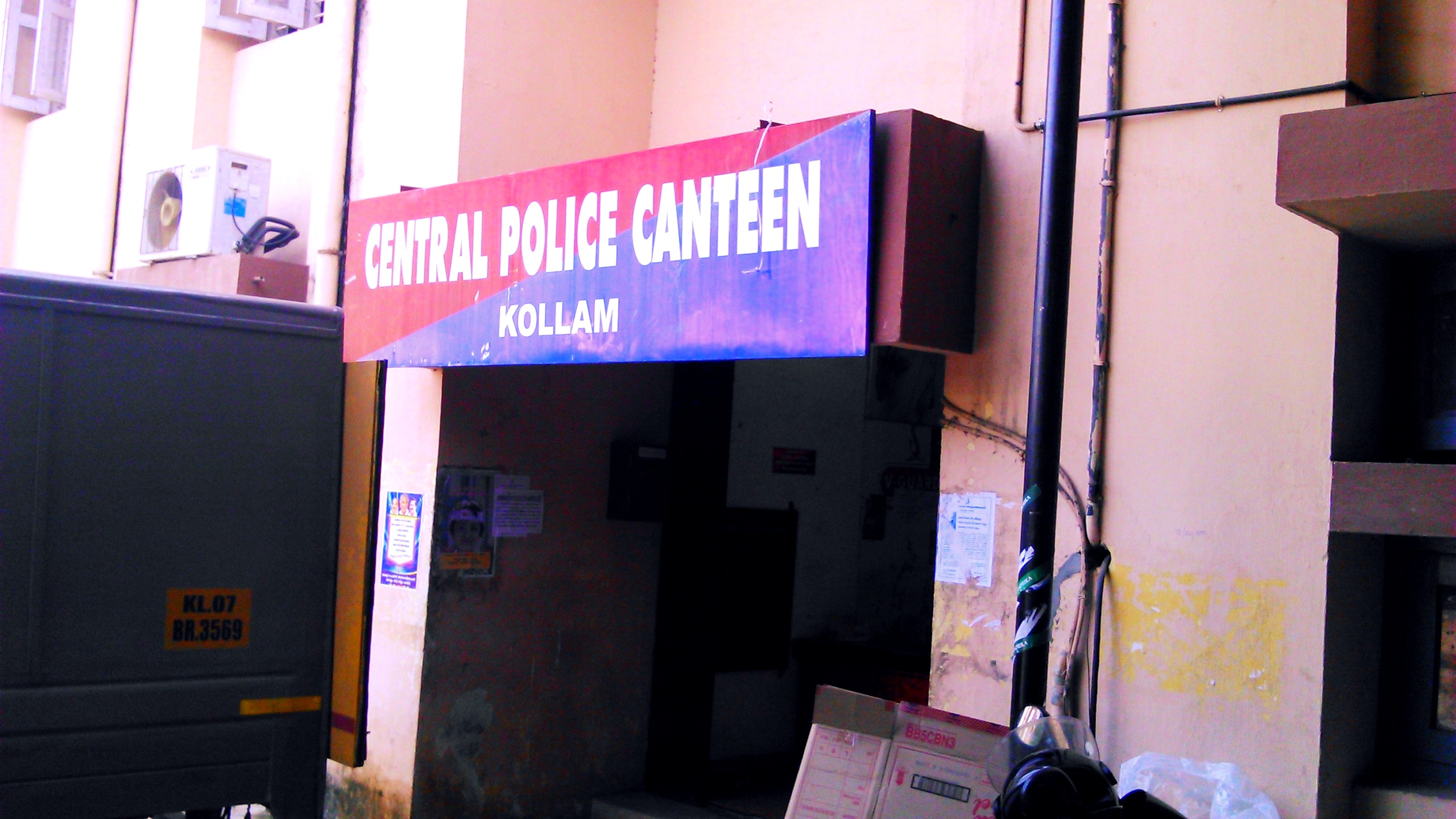 Central Police Canteen in Kollam is situated inside the Armed Reserve Police Camp premises